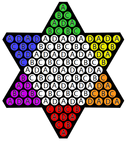 Own work based on the work image:Chinese checkers start.svg .